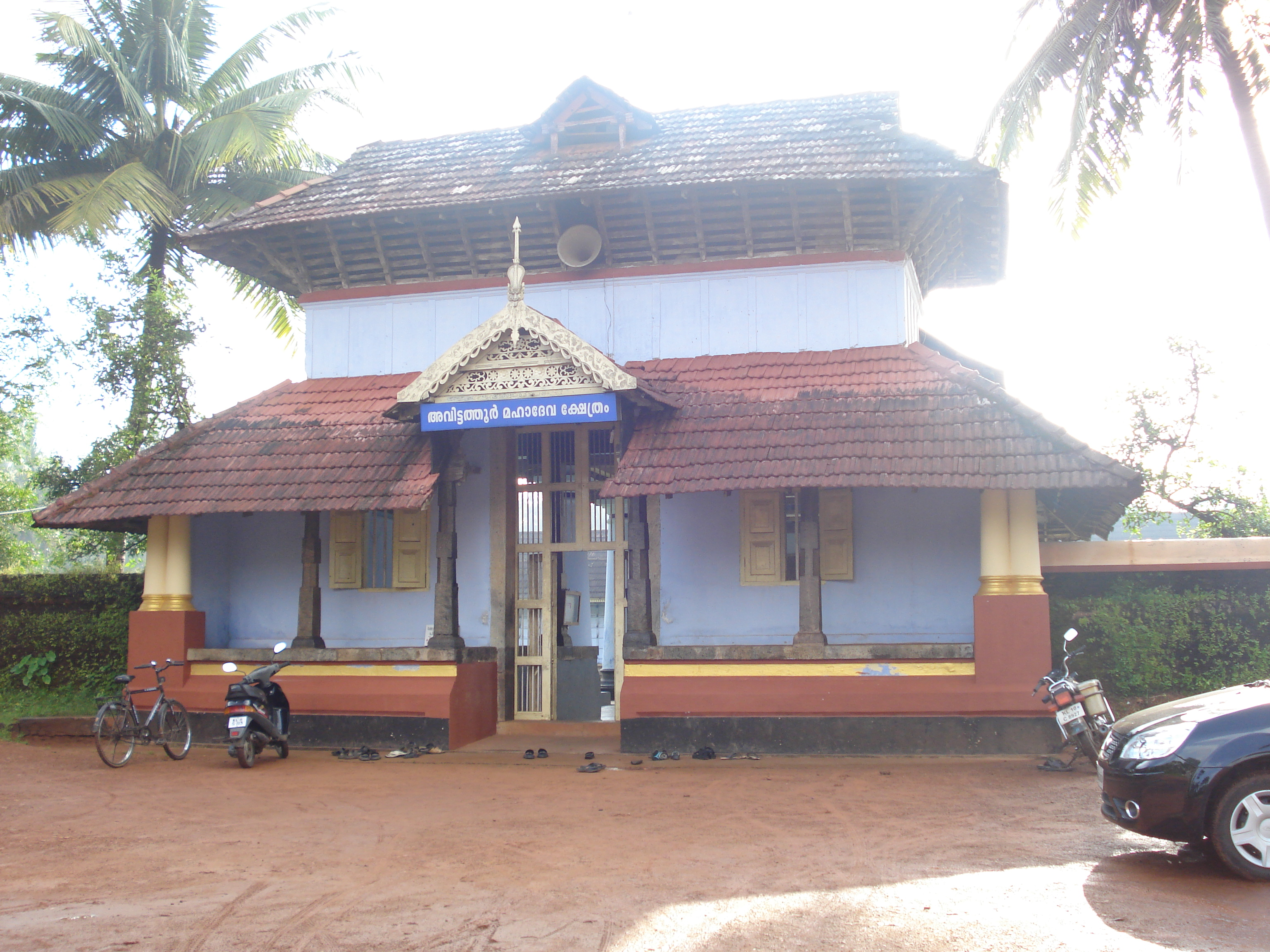 Just 4 kms from Irinjalakuda...one of d oldest siva temple..